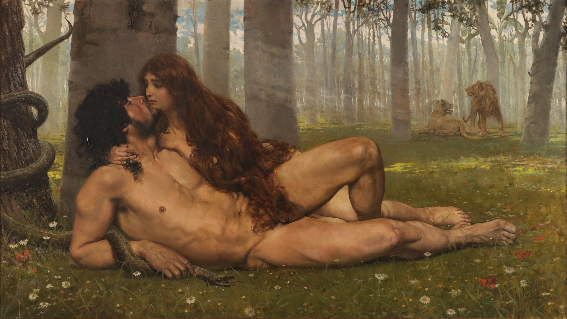 The First kiss of Adam and Eve.